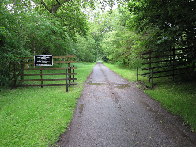 Access track to Lochnell House. The cattle grid 363620 has been infilled but the sign 1530149 still says that there is no access due to deer culling all year. I suspect that preventing walkers is a higher priority than controlling deer numbers as otherwise a proper double width deer grid would have been installed.